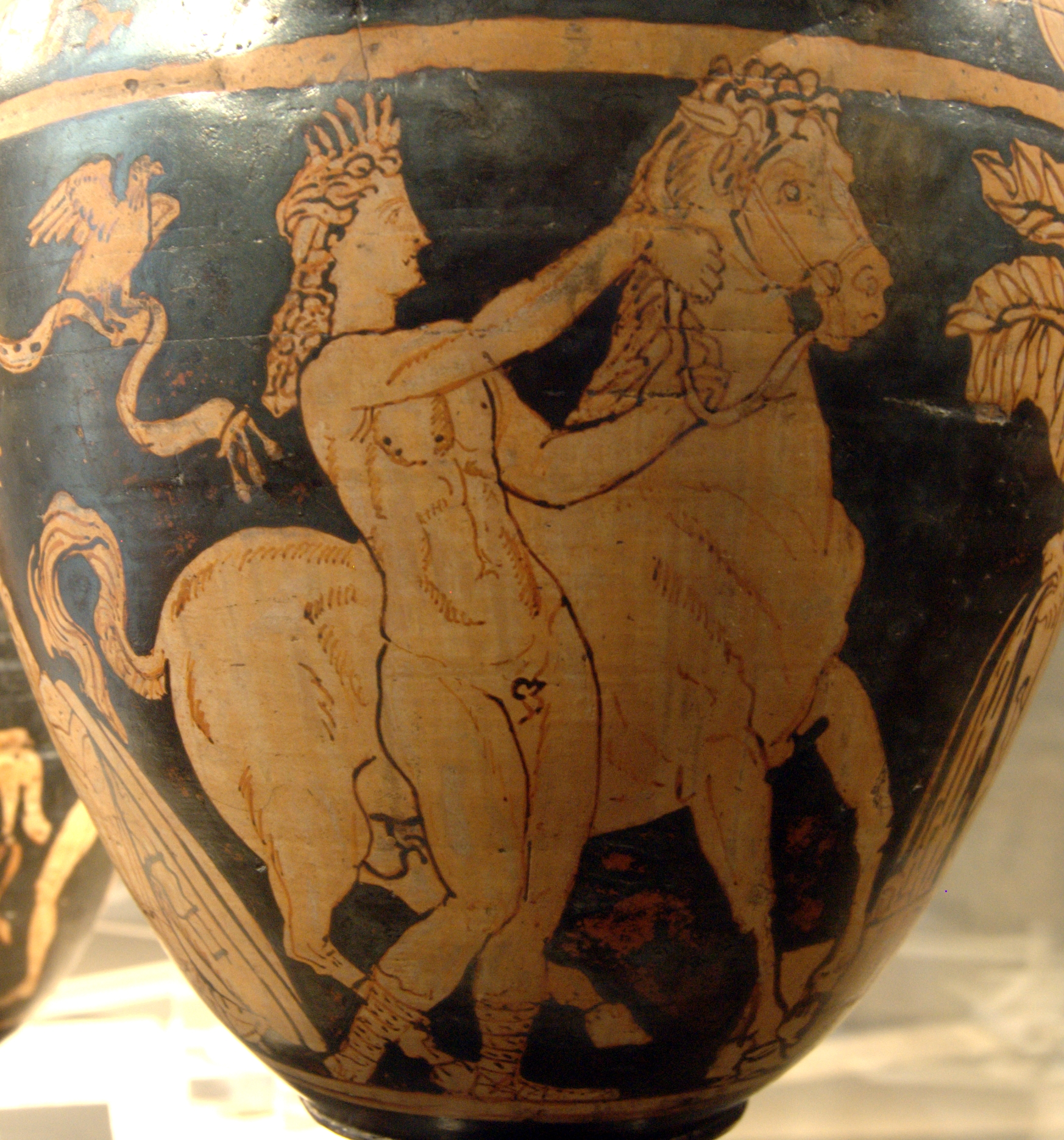 Troilus at the fountain (threatening Achilles on the left). Detail of an Etruscan red-figure stamnos (from a pair known as “Fould stamnoi”), ca. 300 BC. From Vulci.